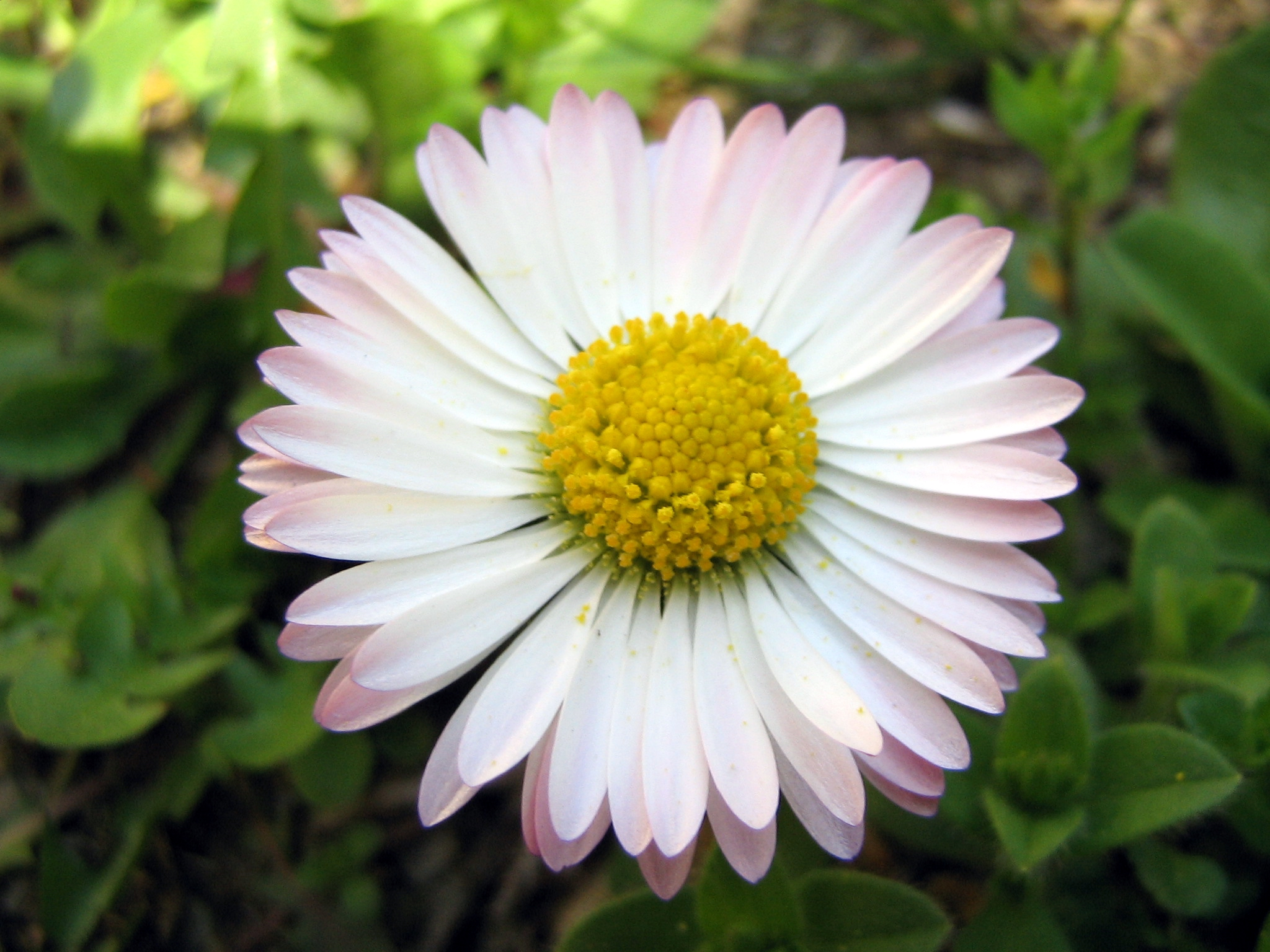 The flower bellis perennis